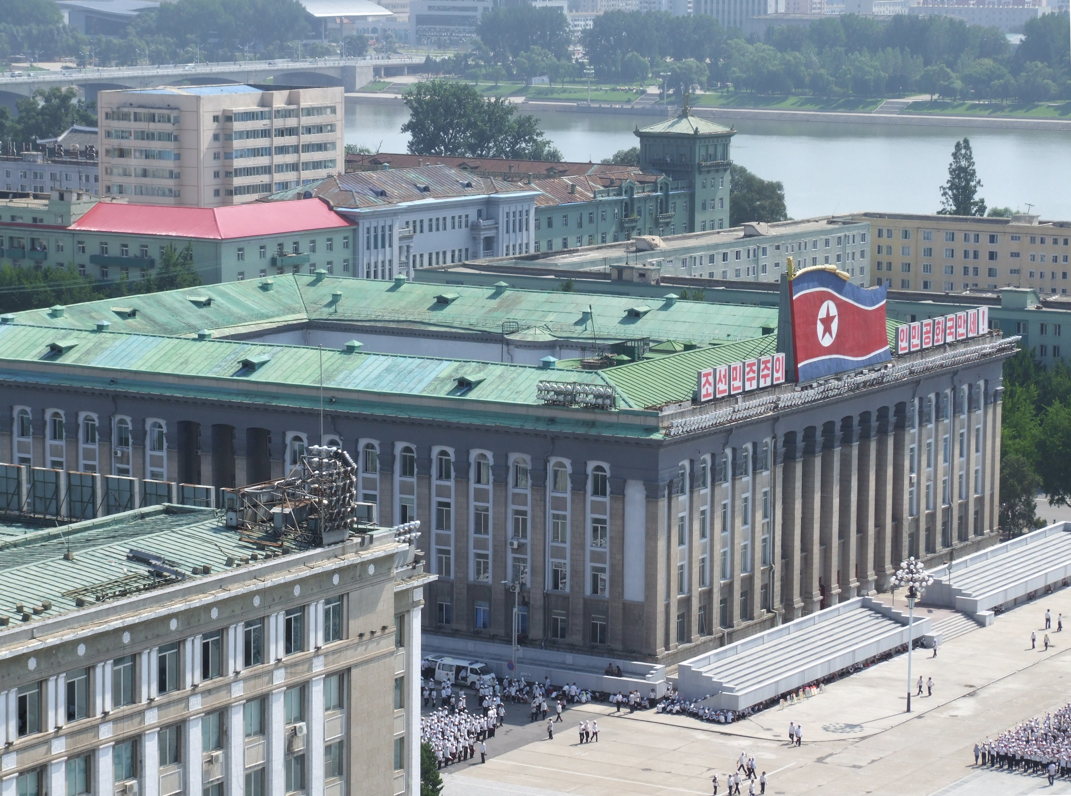 Headquarters of Workers' Party of Korea